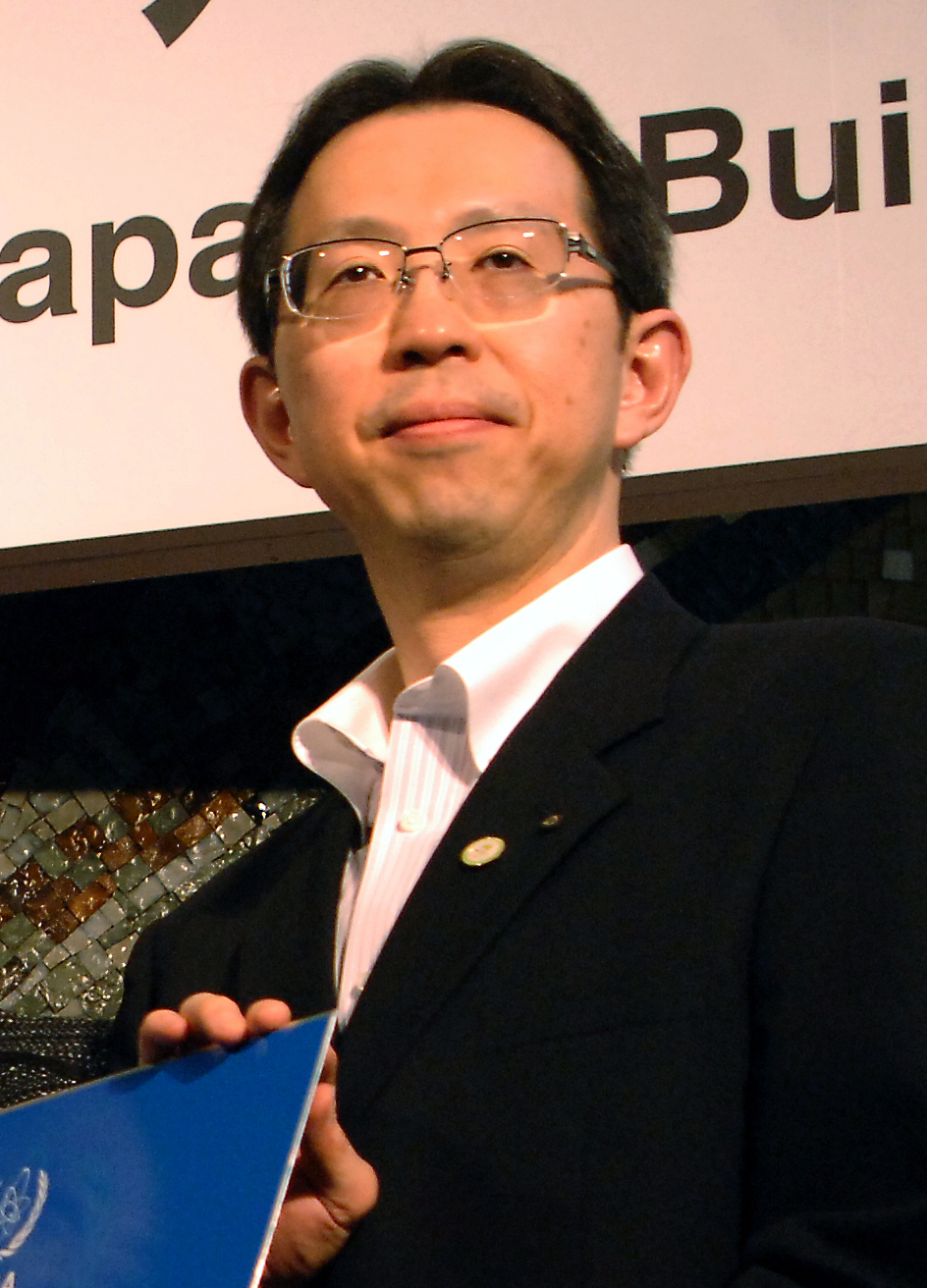 Elena Buglova, Head of the Incident and Emergency Centre, International Atomic Energy Agency, Shin Maruo, Ambassador for Science and Technology Cooperation, and Masao Uchibori, Deputy Governor of Fukushima Prefecture, held up signs of the IAEA RANET Capacity Building Centre in Fukushima City, Fukushima Prefecture on May 27, 2013.